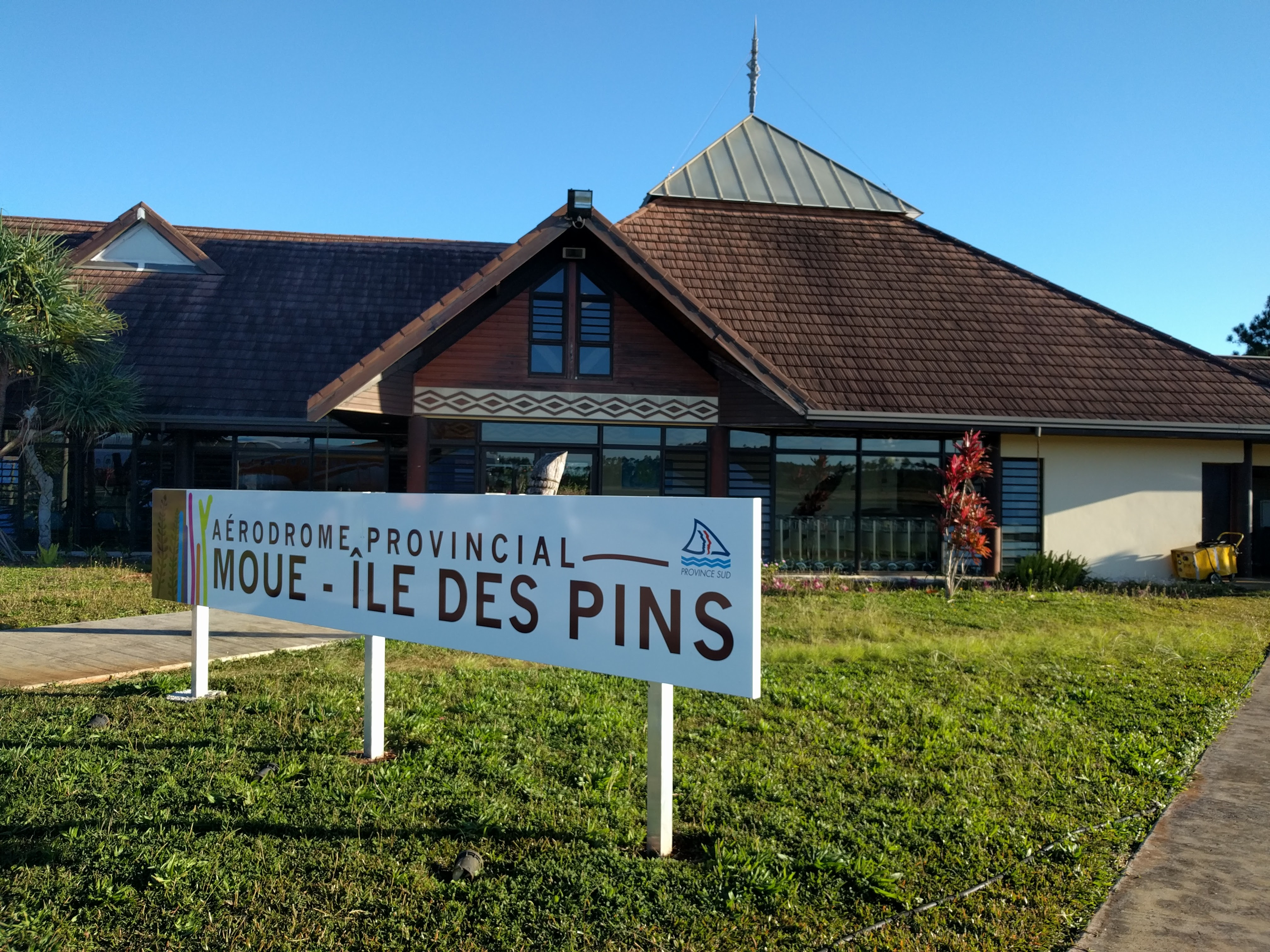 Île des Pins (Isle of Pines) Airport, New Caledonia